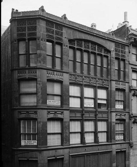 Jewelers' Building, 15-19 South Wabash Avenue, Chicago (Cook County, Illinois) (cropped) This file comes from the Historic American Buildings Survey (HABS), Historic American Engineering Record (HAER) or Historic American Landscapes Survey (HALS). These are programs of the National Park Service established for the purpose of documenting historic places. Records consist of measured drawings, archival photographs, and written reports. This tag does not indicate the copyright status of the attached work. A normal copyright tag is still required. See Commons:Licensing for more information. This work is in the public domain in the United States because it is a work prepared by an officer or employee of the United States Government as part of that person’s official duties under the terms of Title 17, Chapter 1, Section 105 of the US Code. Note: This only applies to original works of the Federal Government and not to the work of any individual U.S. state, territory, commonwealth, county, municipality, or any other subdivision. This template also does not apply to postage stamp designs published by the United States Postal Service since 1978. (See § 313.6(C)(1) of Compendium of U.S. Copyright Office Practices). It also does not apply to certain US coins; see The US Mint Terms of Use. This file has been identified as being free of known restrictions under copyright law, including all related and neighboring rights. Object location41° 52′ 53″ N, 87° 37′ 33″ W